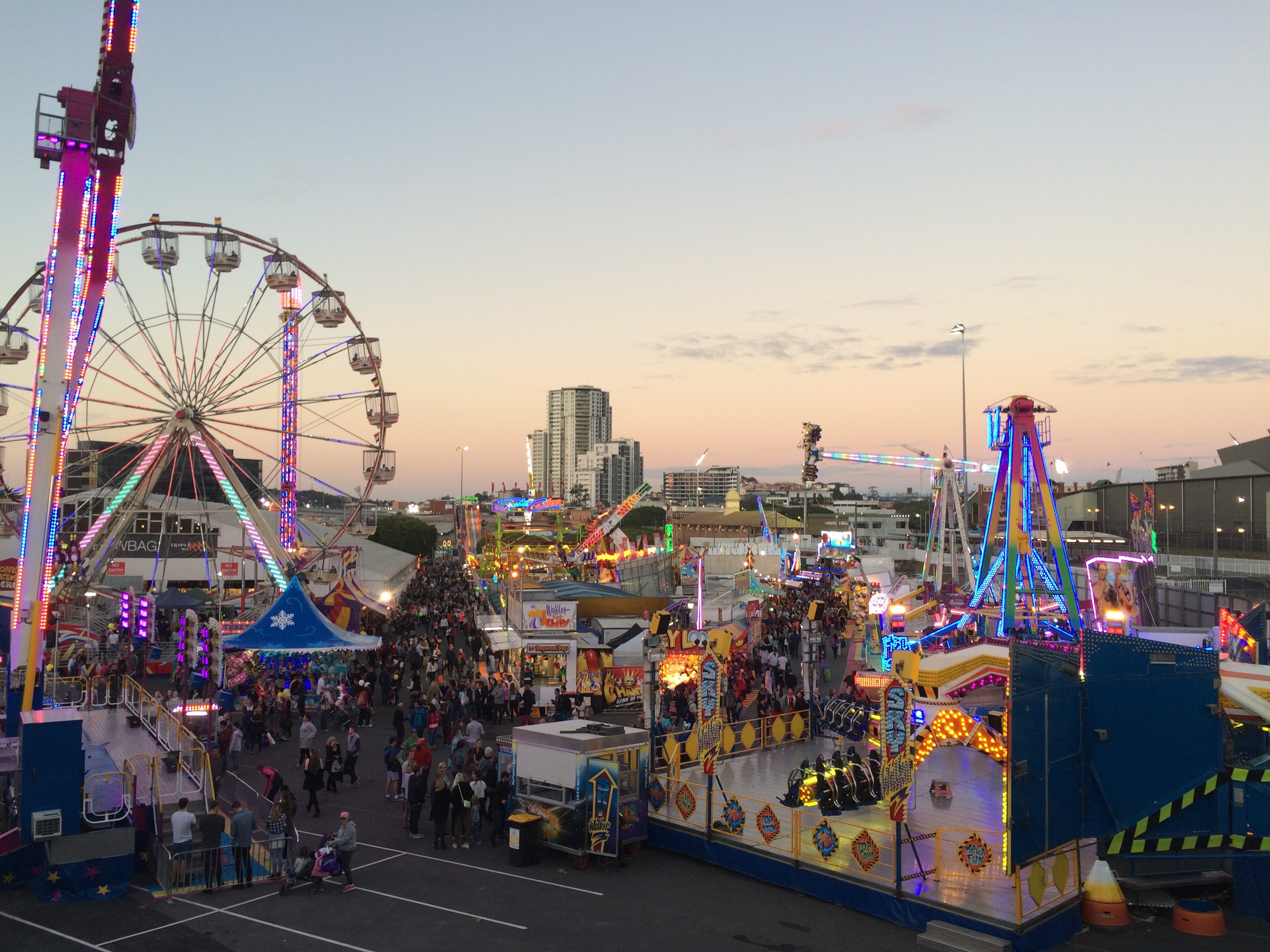 Sideshow Alley at dusk, Ekka, Brisbane, 2015